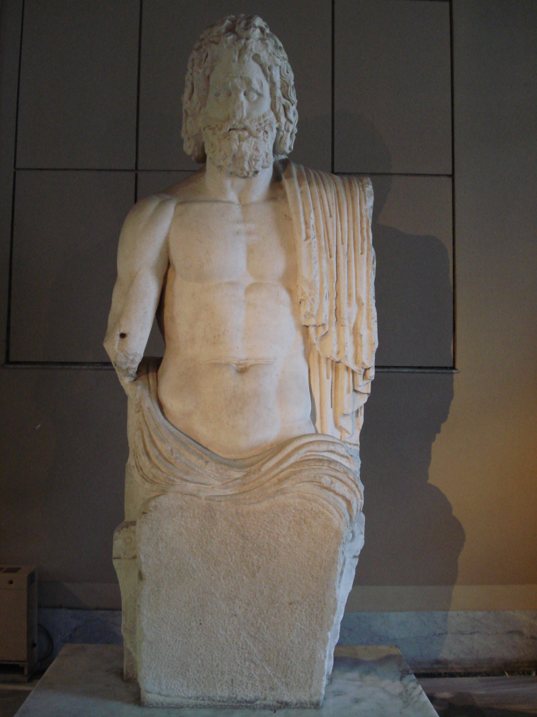 Colossal seated Zeus from Gaza, Roman period. Statue of Zeus, Istanbul Archaeology Museum, last room of the ground floor. The king of the gods, ruler of Mount Olympus, and god of the sky and thunder in Greek mythology.